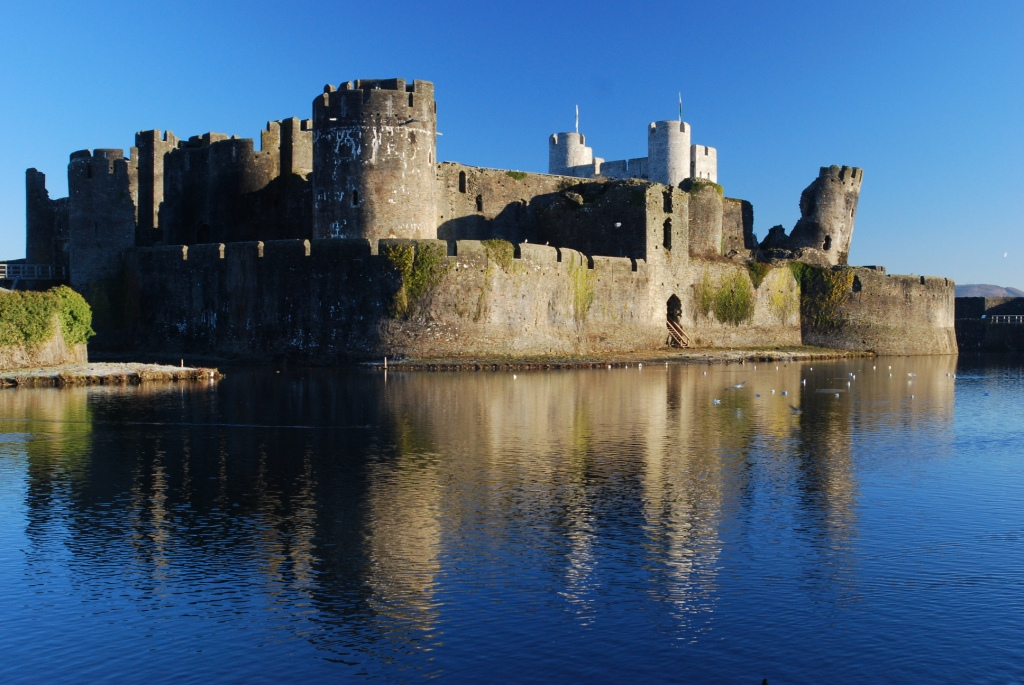 Caerphilly Castle, Caerphilly, Wales